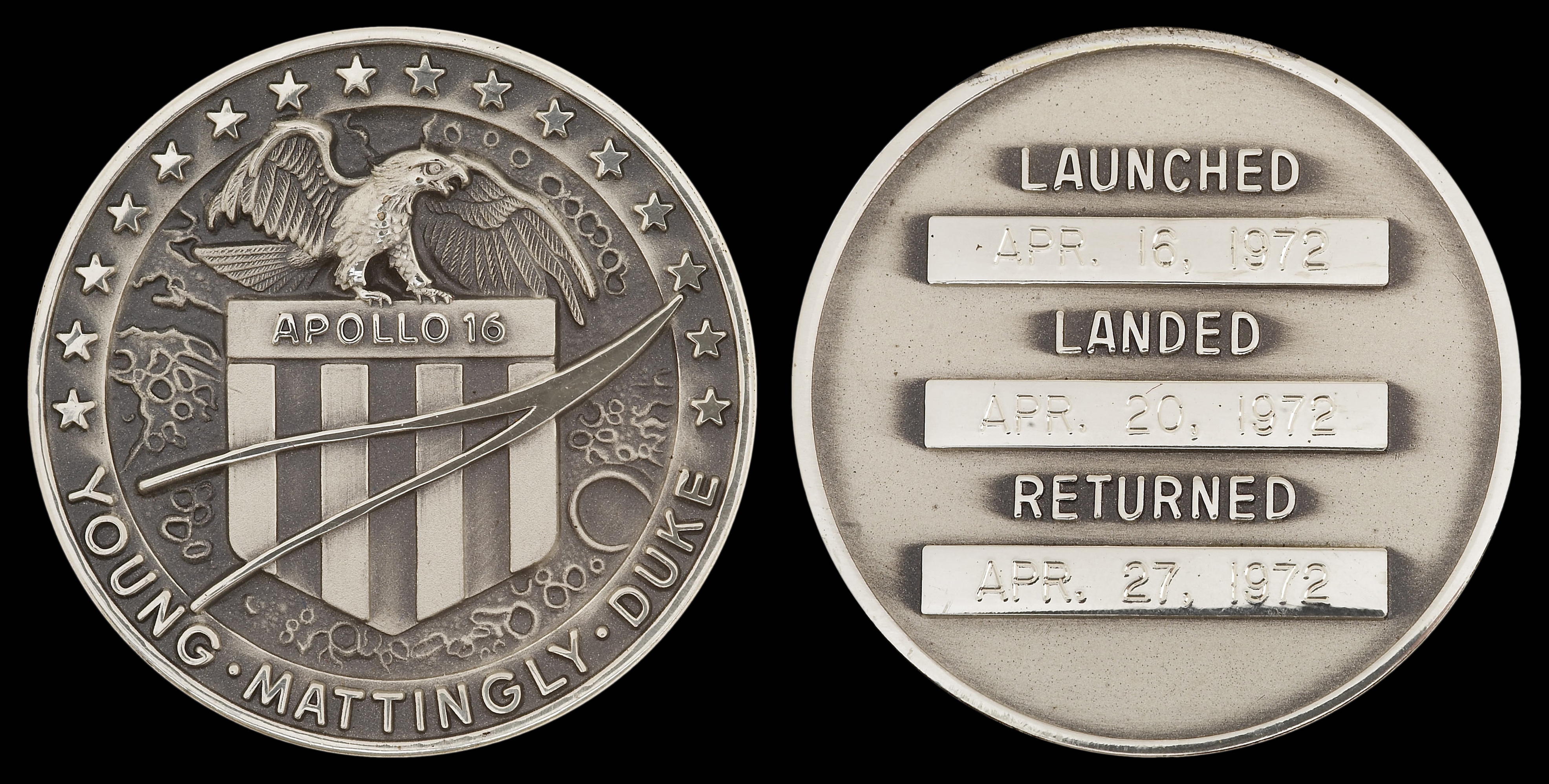 Apollo 16 (S71-56246, March 1972) Flown Silver Robbins Medallion (SN-19) from the collection of John Young(6022-41122)